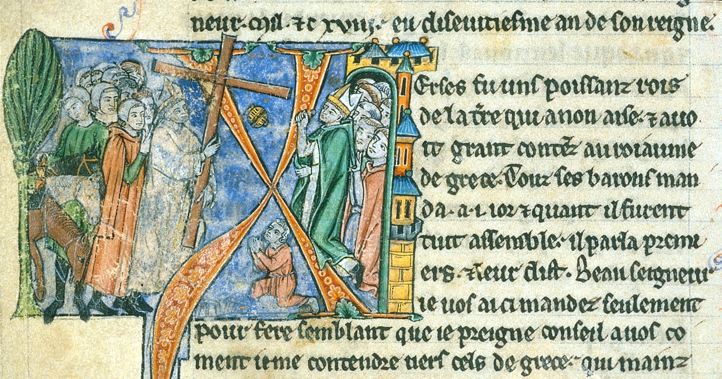 A 13th-century depiction of Ebremars, Archbishop of Caesarea, carrying the True Cross to Antioch